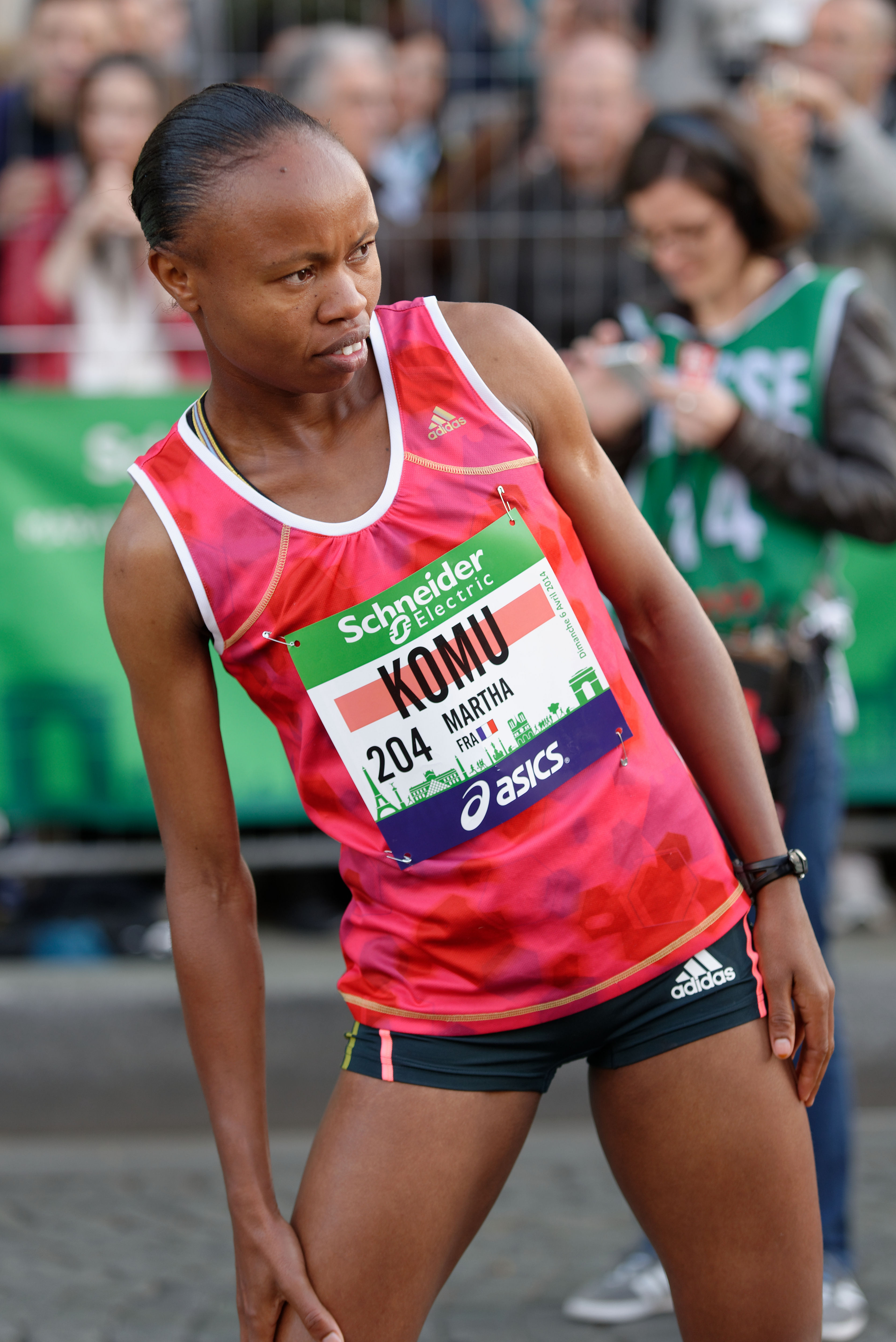 France's Martha Komu warms up before the start of the 2014 Paris Marathon.